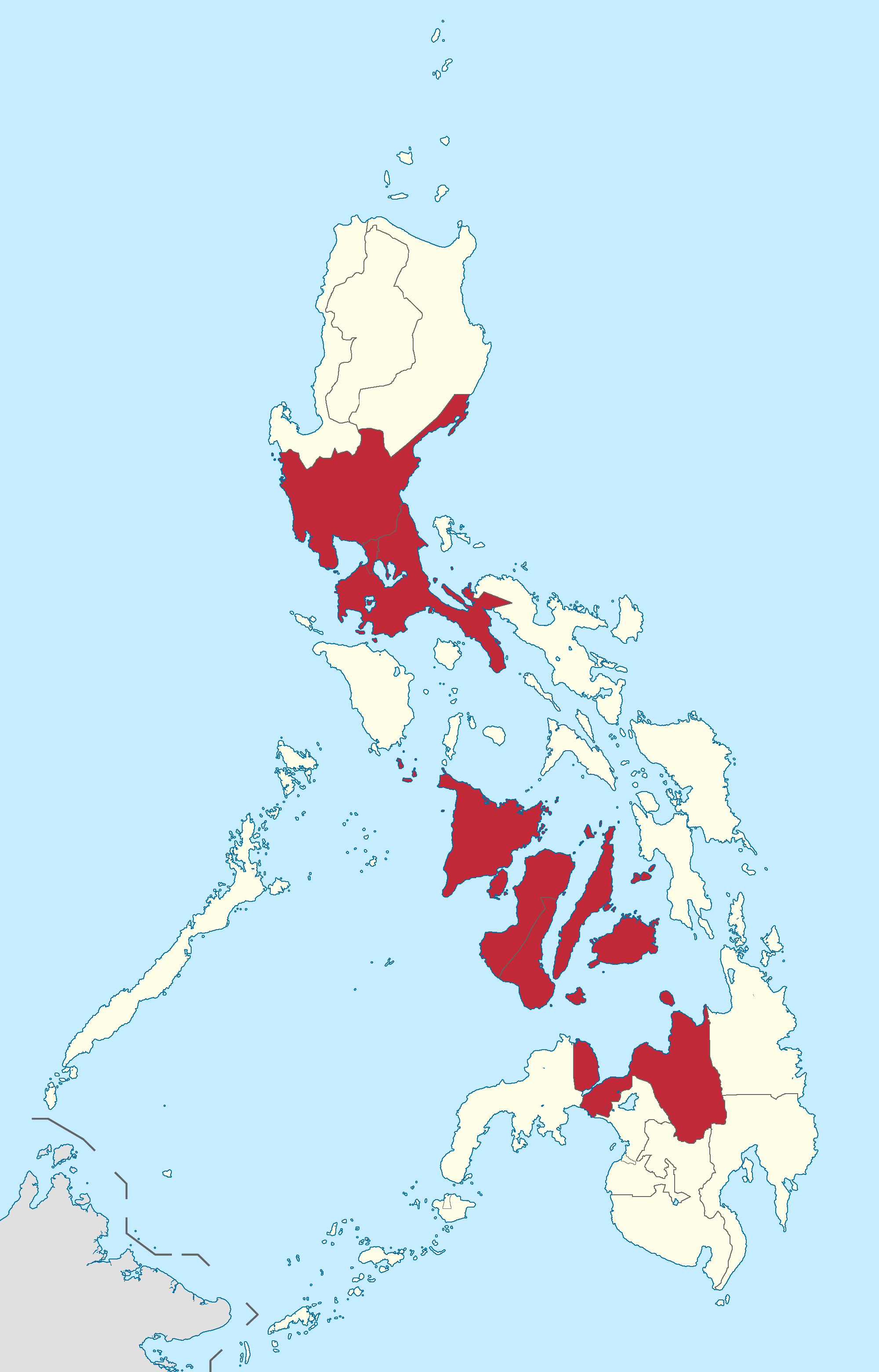 2019 Philippines measles outbreak; Map displaying the regions where a measles outbreak has been officially declared by the Department of Health.